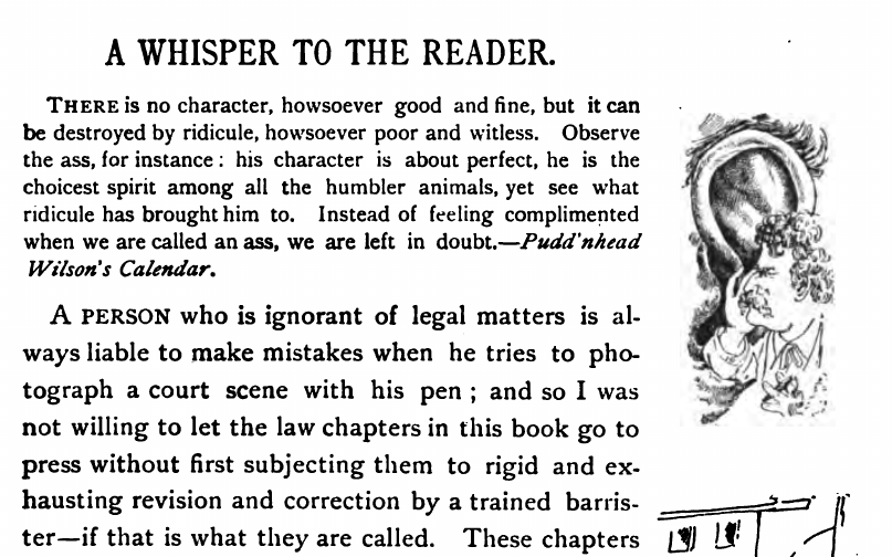 Opening of the text of Pudd'nhead Wilson, with marginal illustration of Mark Twain.